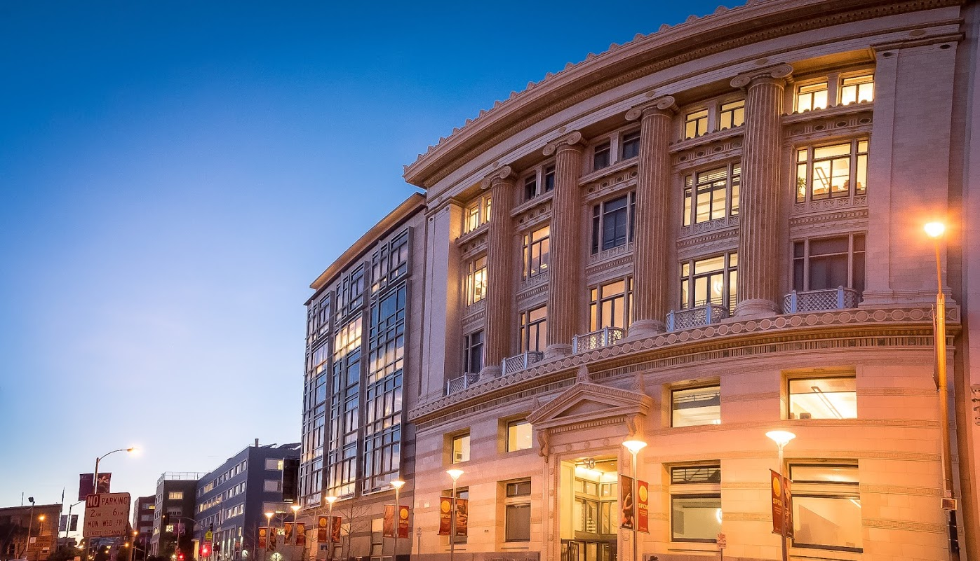 Facade of the San Francisco Conservatory of Music